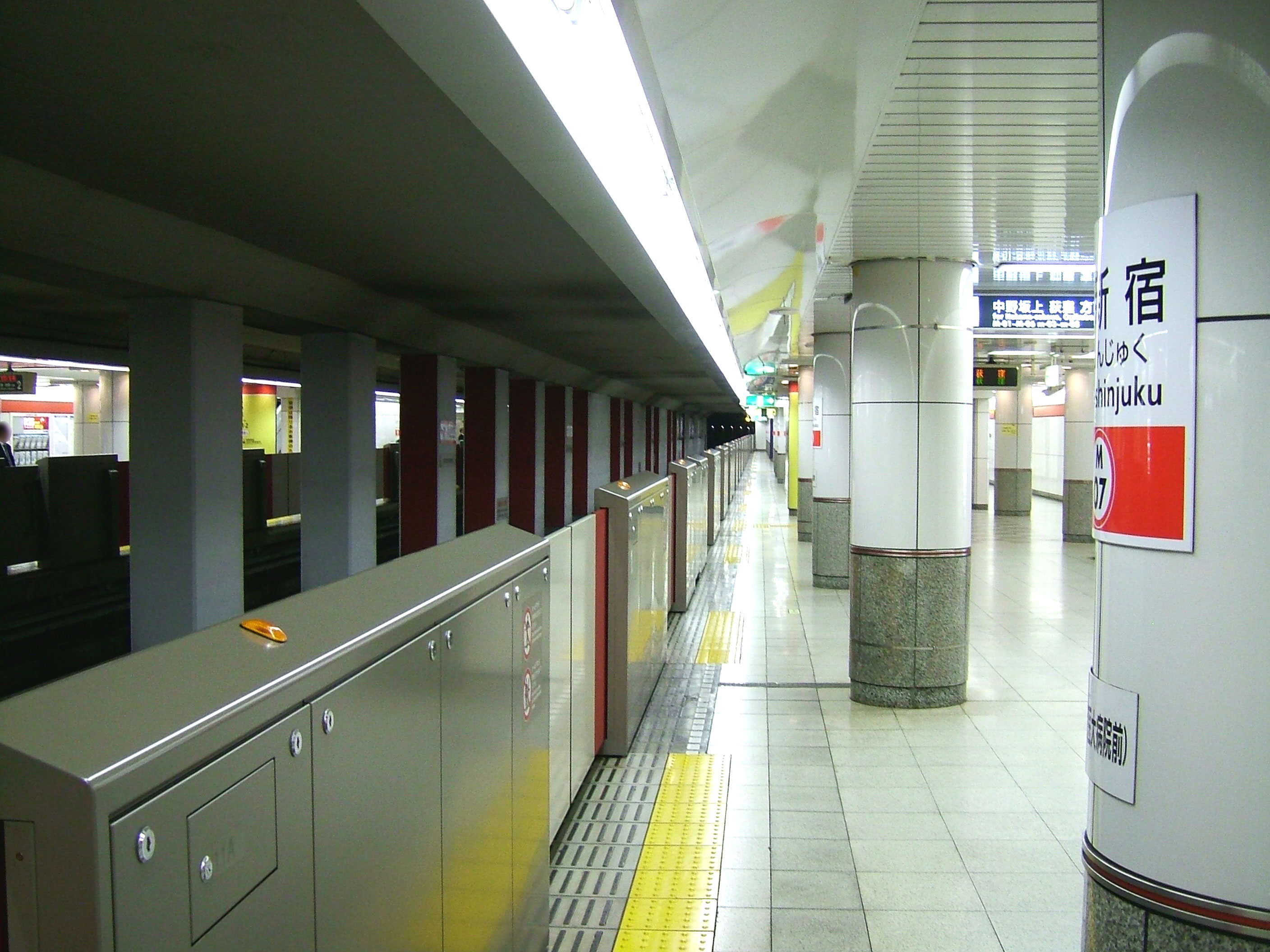 The platforms at Nishi-Shinjuku Station on the Tokyo Metro Marunouchi Line in Shinjuku city, Tokyo, Japan